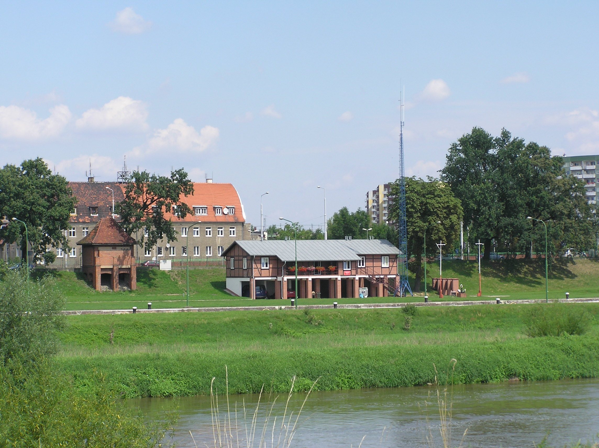 Wrocław, Oder River, Różanka Canal, Różanka Lock (in the foreground: Stara Odra)